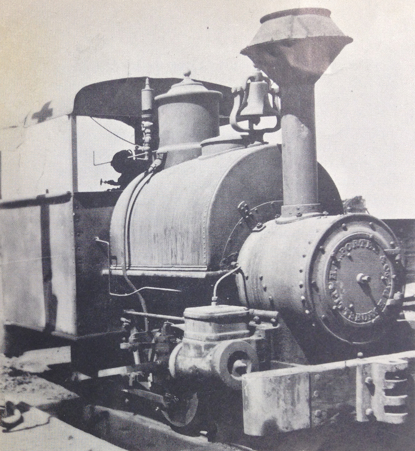 H.K. Porter built 0-4-0 saddle tank engine 'Emil', built June 1888 for use on the Waterloo Mining Railroad (also known as Daggett-Calico Railroad), later used by the American Borax Company to mine colemanite shales out of Lead Mountain and later on, in Tick Canyon, 30 miles from Los Angeles.